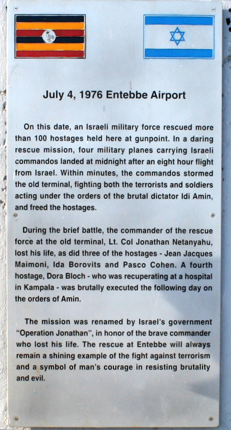 Wall plaque found at the old terminal building of the Entebbe International Airport. Photo was taken during Natural Fire 10, a multi-national, globally resourced military exercise focused on humanitarian assistance and disaster relief.